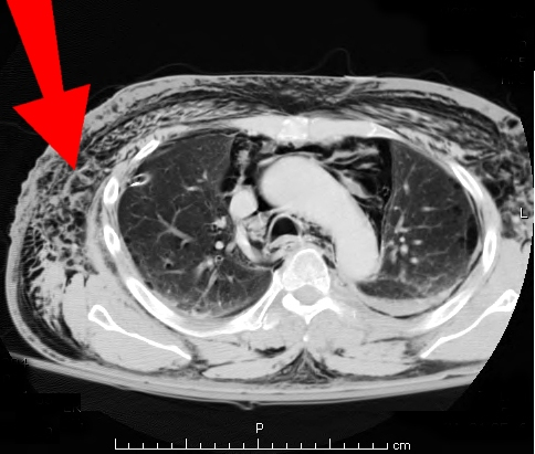 Modified version of Image:Subcutaneous emphysema chest.jpg, a CT scan of a patient with severe subcutaneous emphysema. Chest CT. Red arrow points to Subcutaneous emphysema.